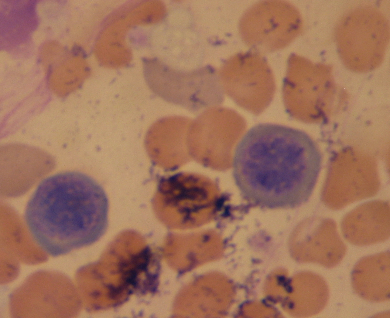 Basophilic normoblast from a Bone marrow examination (40x).